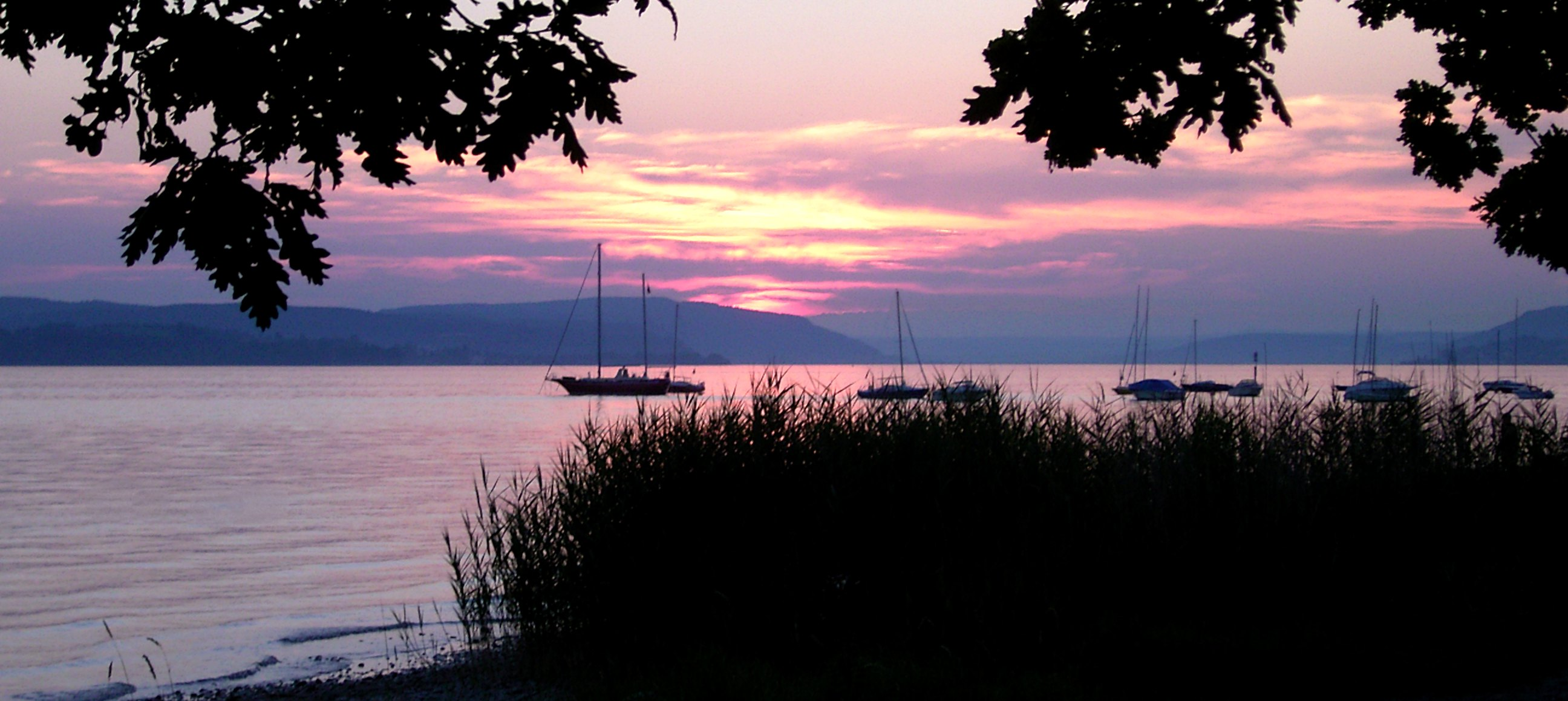 Sunset at the Lake Constance